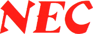 Old NEC logo, used from 1963 to 1992 according to wikia:logos:NEC#1963–1992